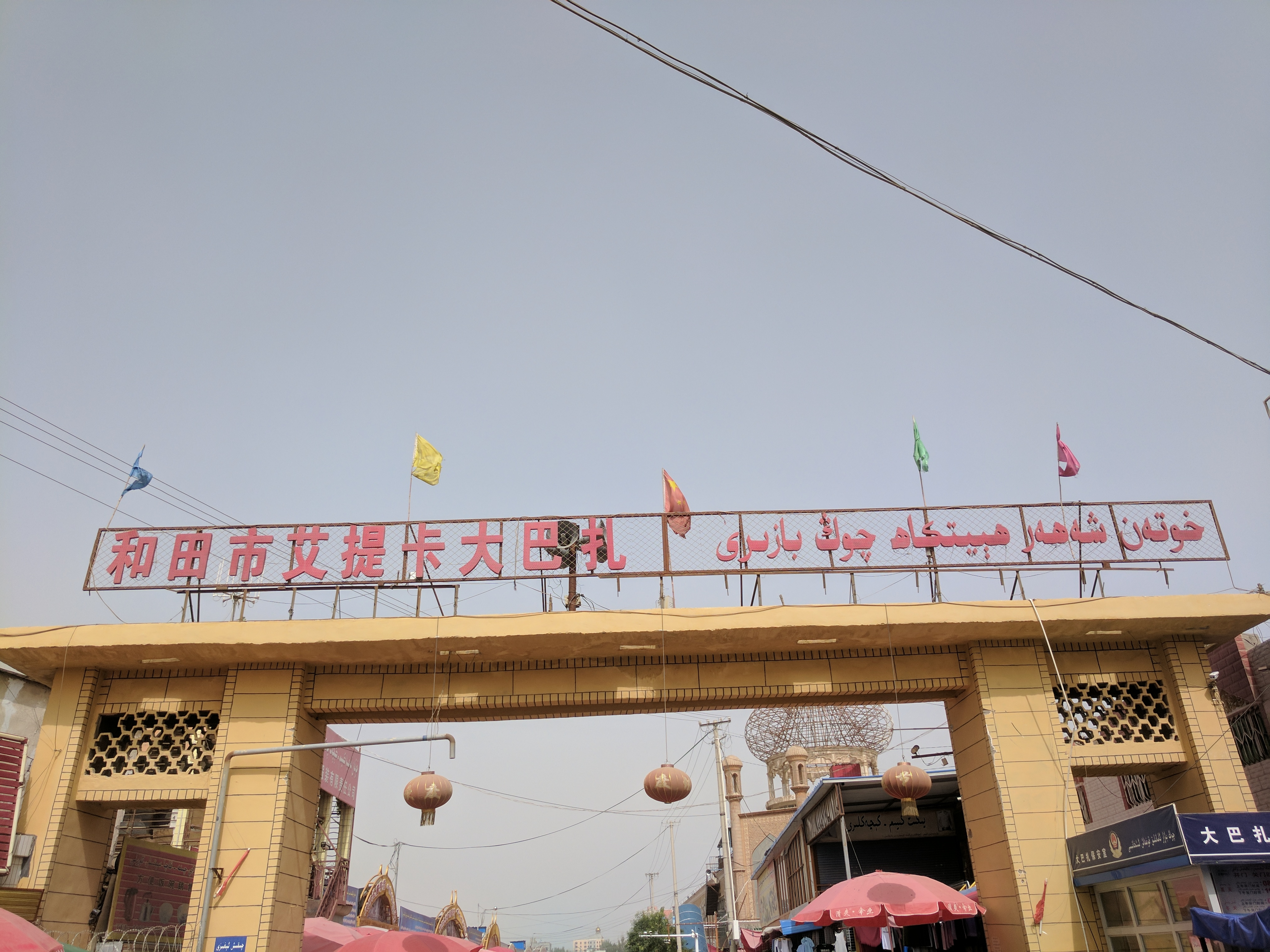 Signage for Hotan Grand Bazaar